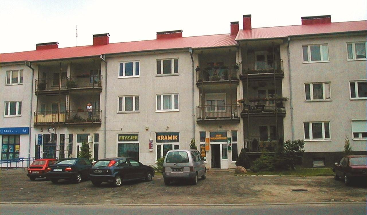 Poznan, Greek-Strzeszyn District in 2002.